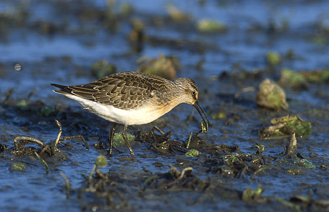 Calidris ferruginea